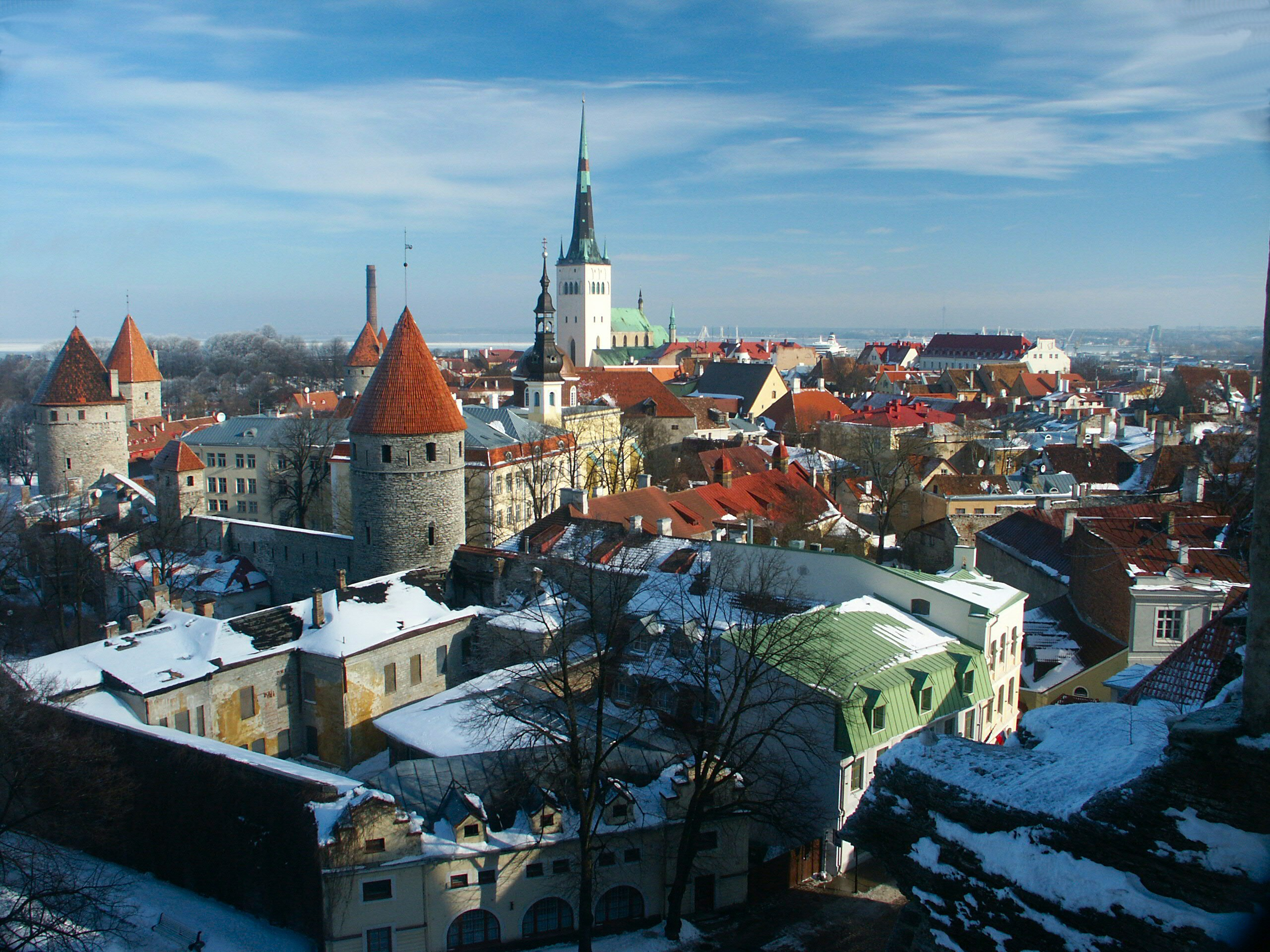 Tallinn (Estland) - View over the Old City